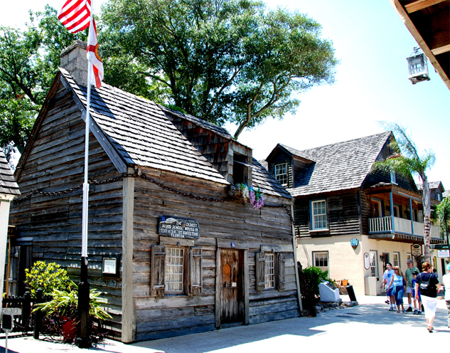 Oldest Wooden Schoolhouse 14 St. Georges Street St. Augustine, Florida